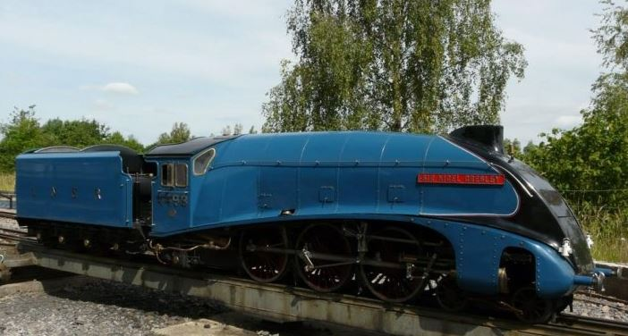 Sir Nigel Gresley